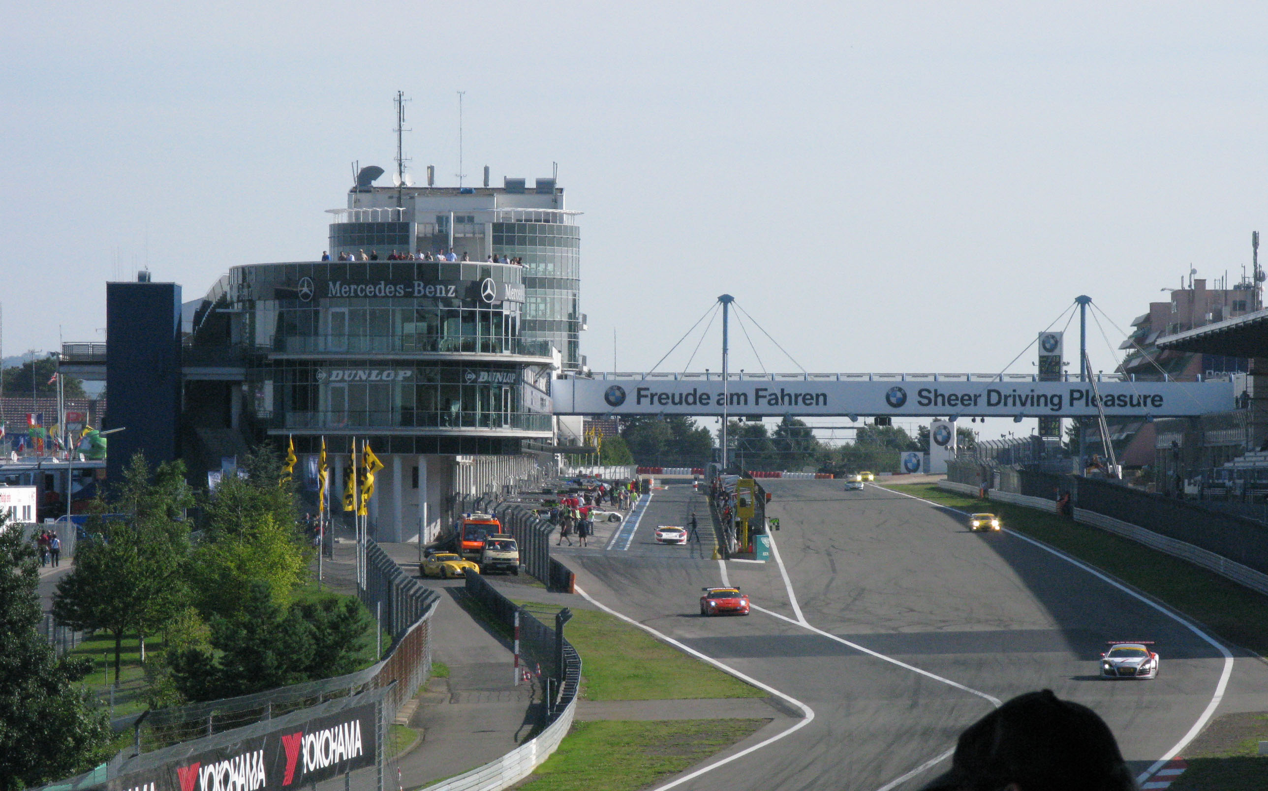 ADAC GT Masters at Nürburgring.